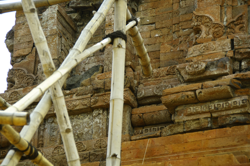 Candi Gunung Gangsir, Beji, Pasuruan, Jawa Timur